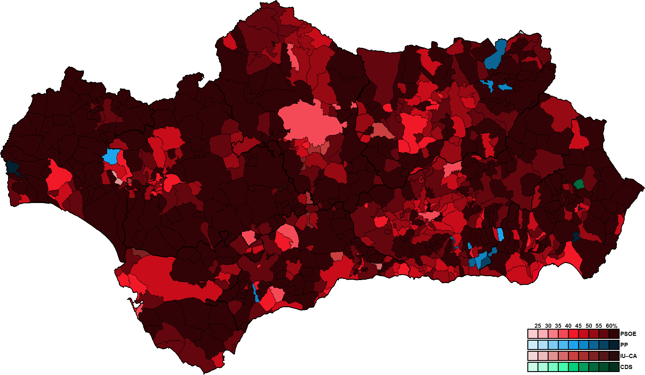 Most-voted party in Andalusia municipalities, showing vote share obtained, in the Spanish general election, 1989.